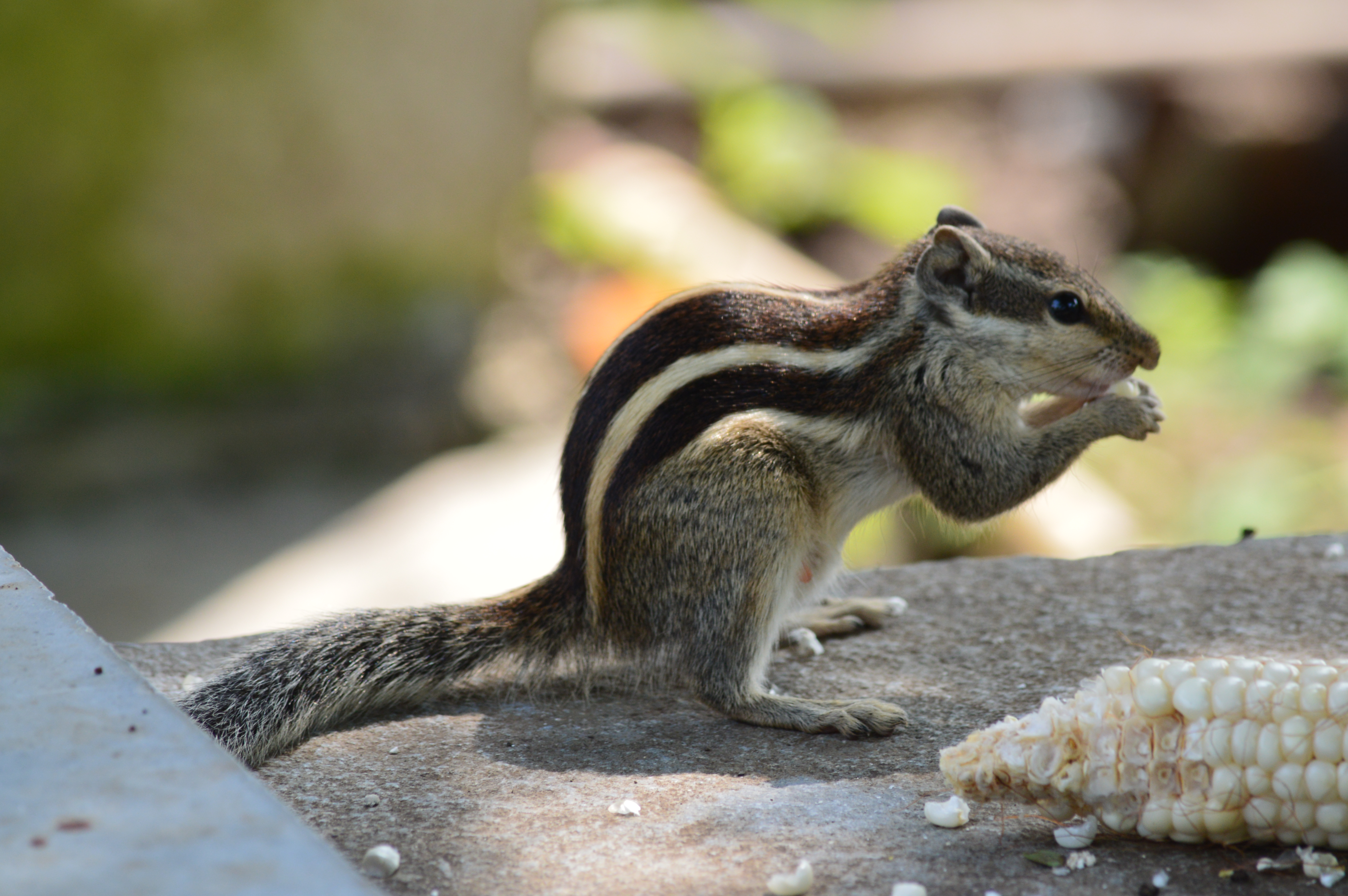 eating food